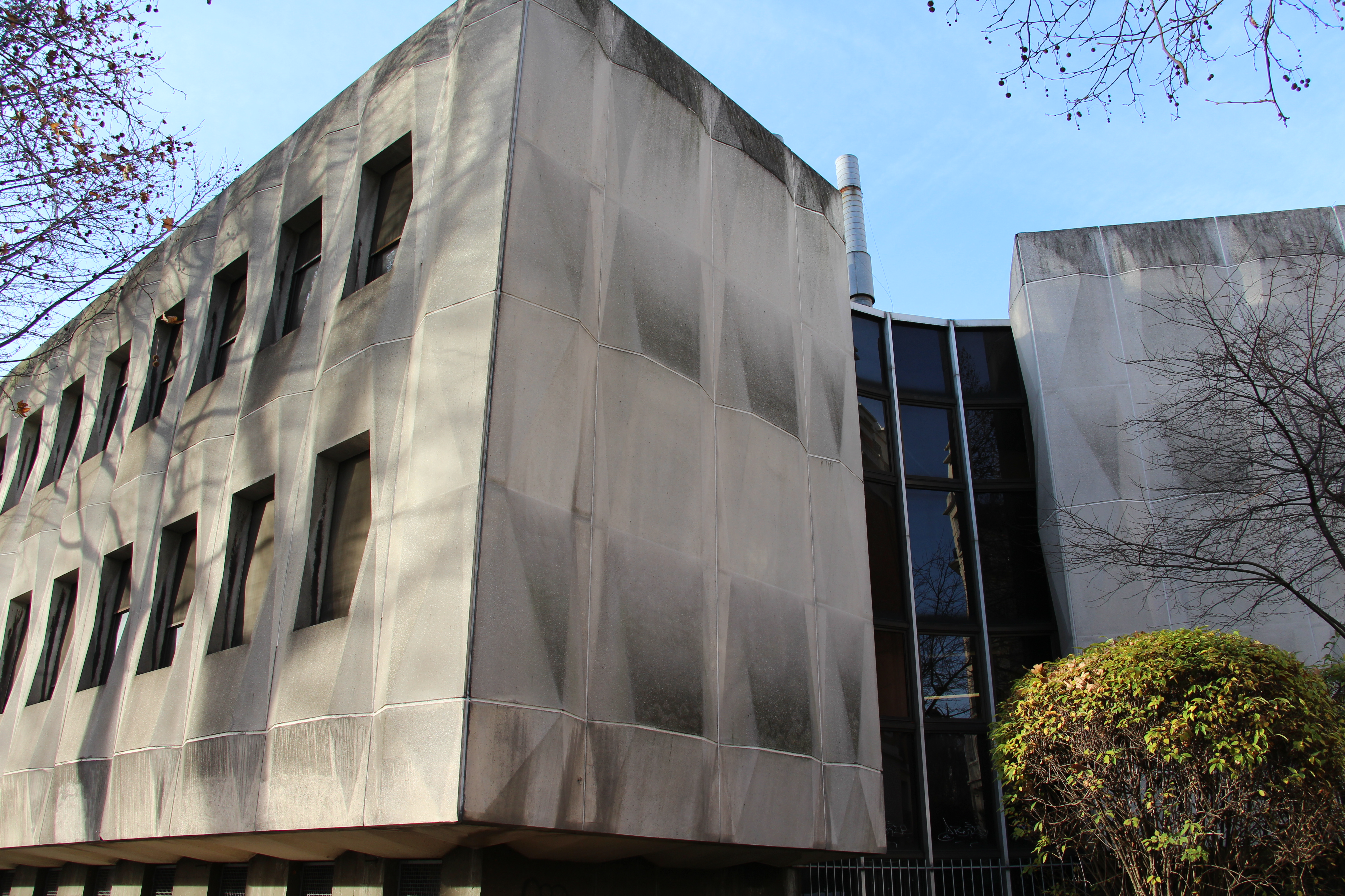 (Auteuil) Rue Wilhem INSERM, Institut National de la Santé et de la Recherche Médicale (National Institute of Health and Medical Research).